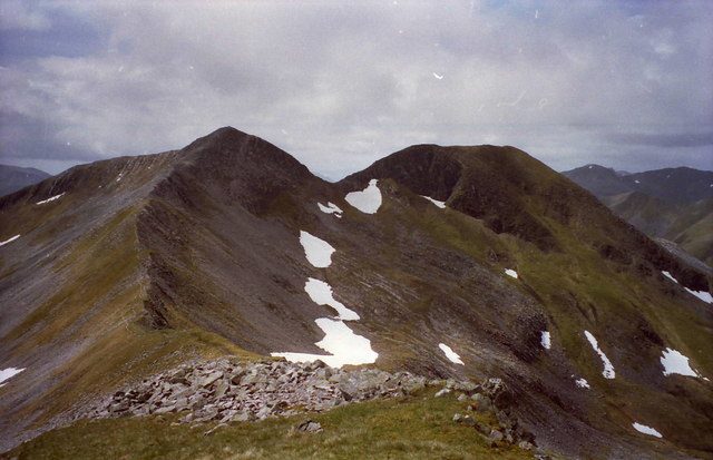 Na Gruagaichean and its north east ridge